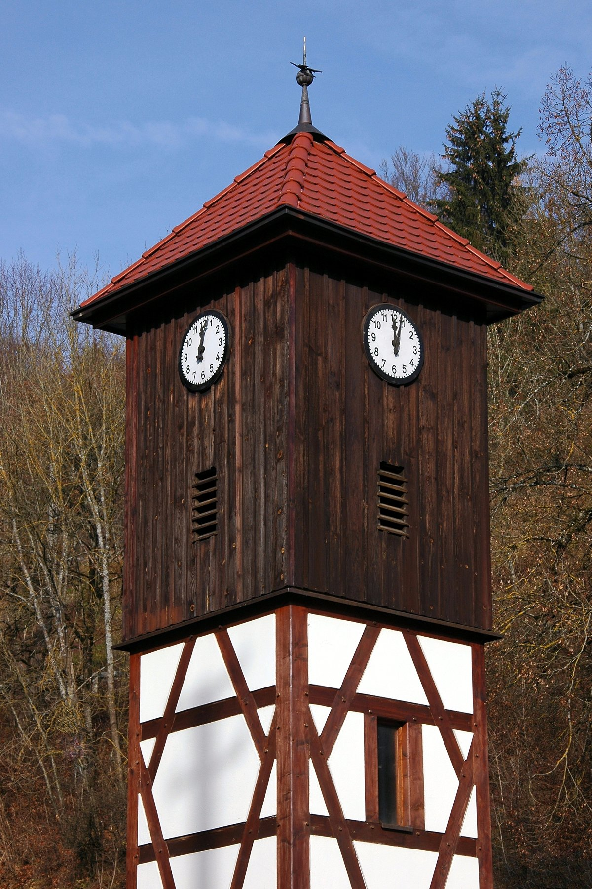 Upper part of The formerly fire hose tower of Rupprechtstegen with its mechanical tower clock, a ancient station clock.